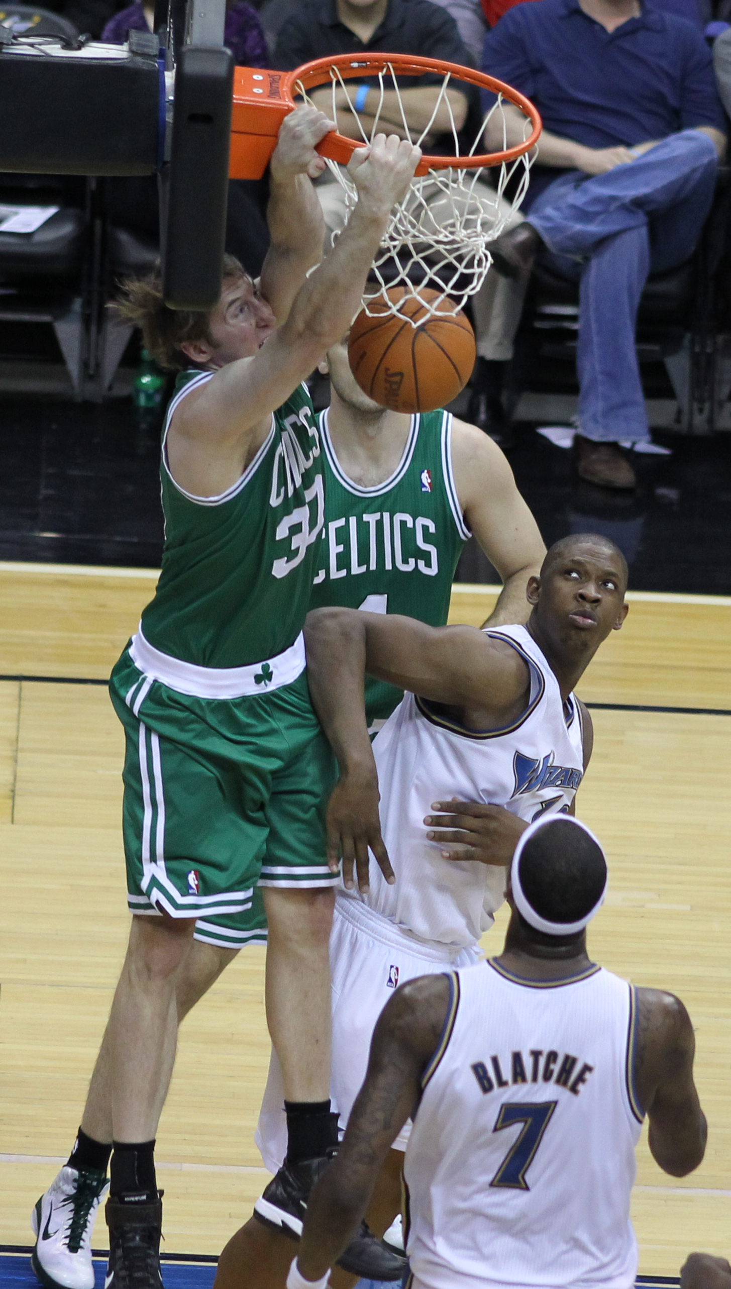 Boston Celtics v/s Washington Wizards April 11, 2011